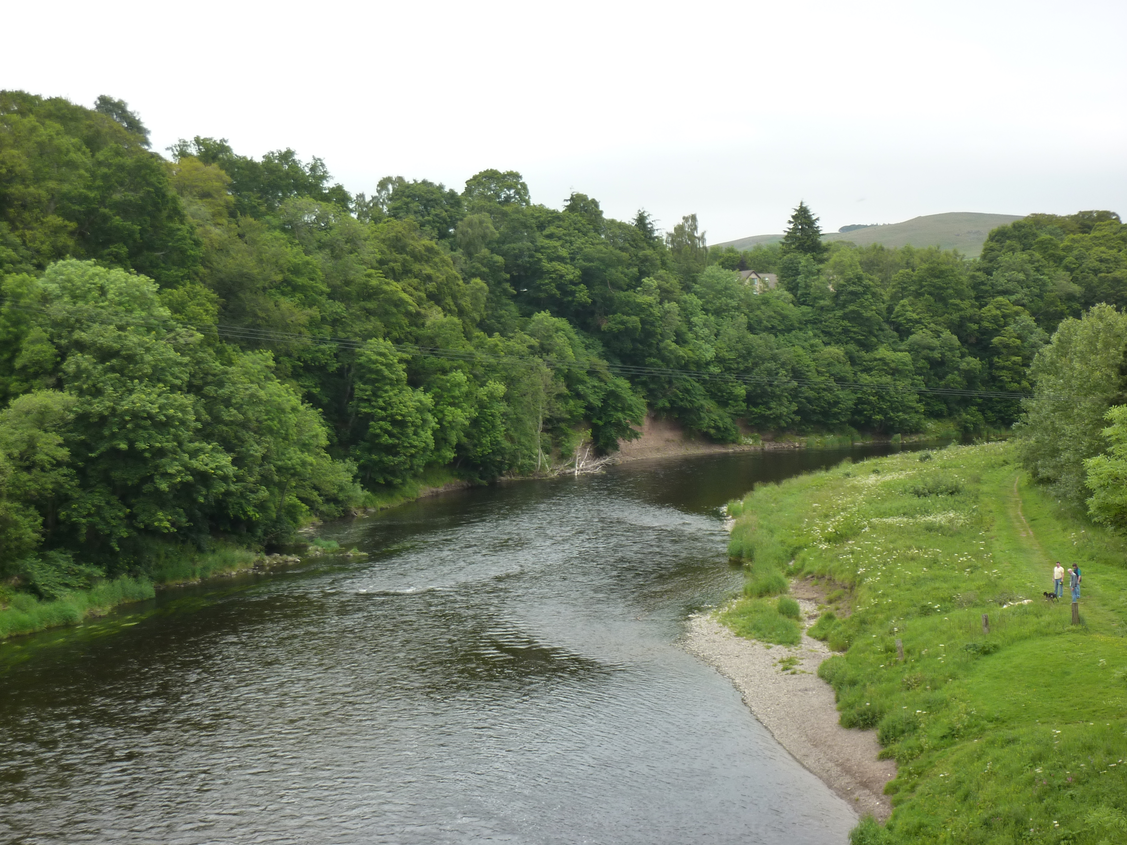 Seen from an old railway viaduct near Tweedbank Day 15 of the Southern Upland Way blogged about at .uk/southernuplandway/day15